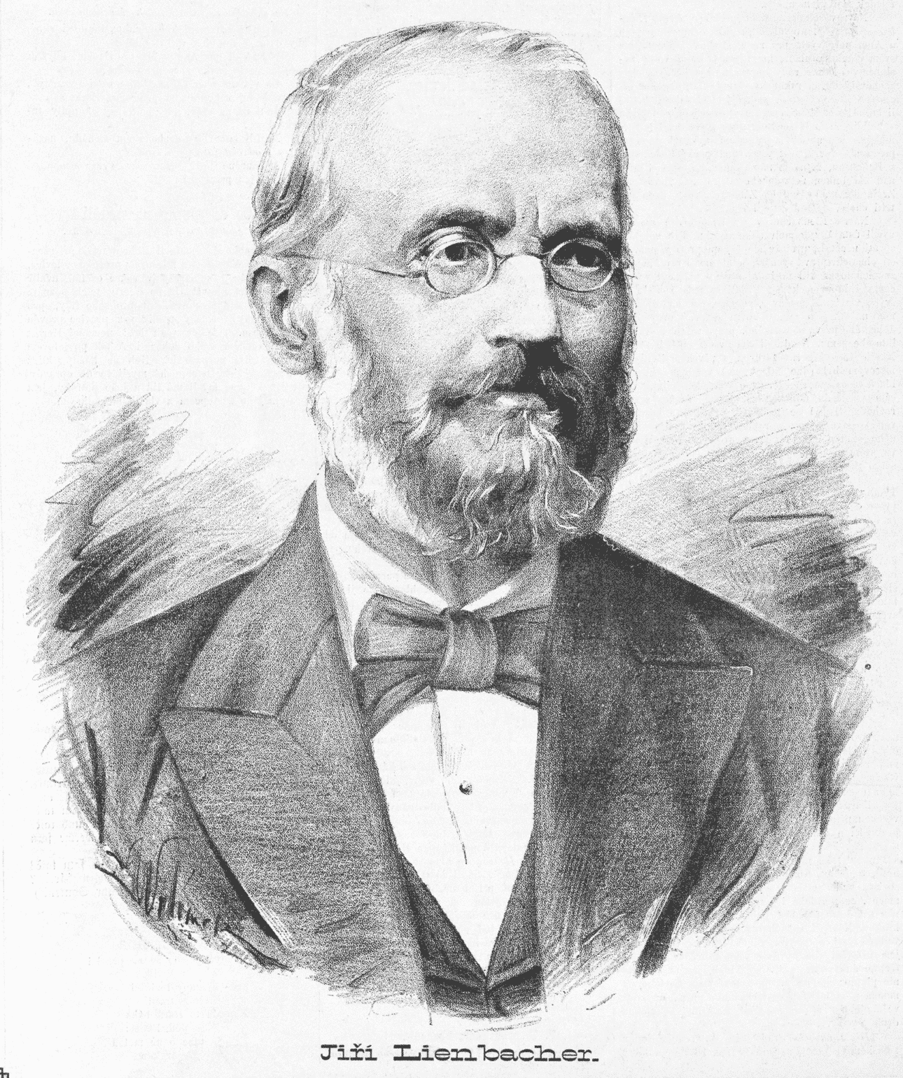 Portrait of Georg Lienbacher (1822- 1896), Austrian politician.